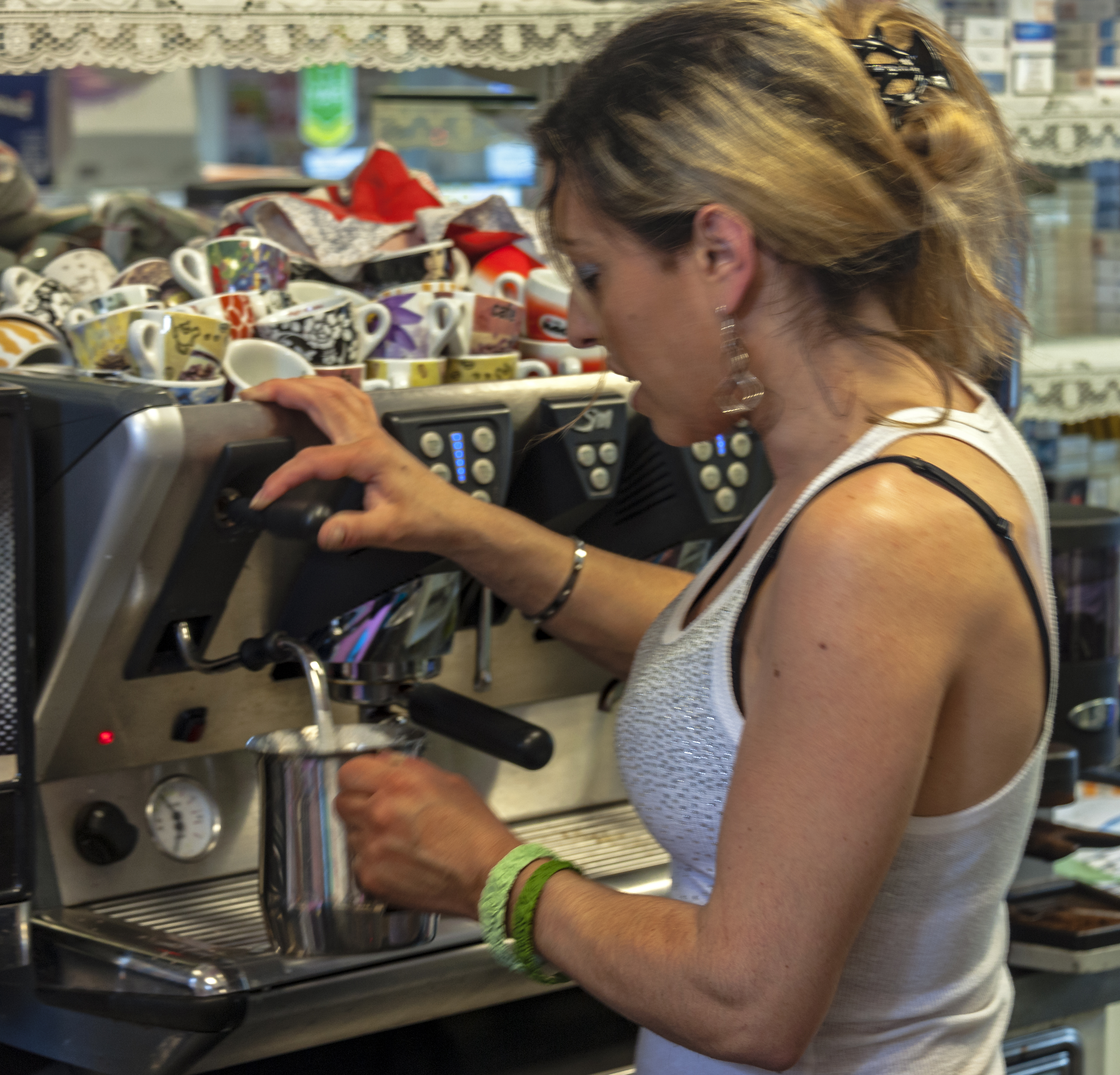 Barista at the Esino Lario Tabak froths a pitcher of milk to make cappuccino with